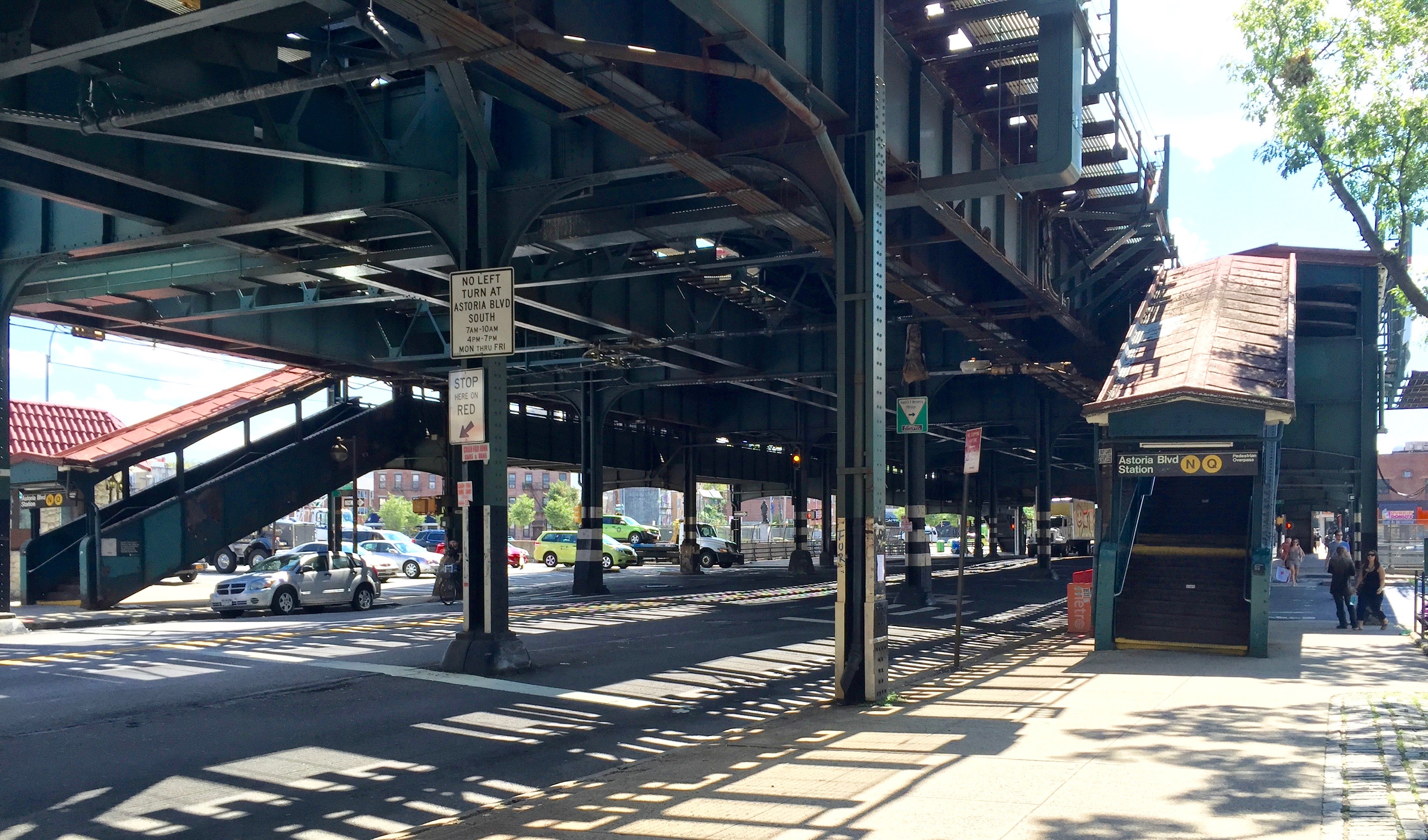 Stairs on the south side of Astoria Blvd and 31st Street on the N/Q.